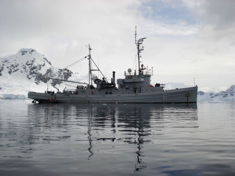 ARA Suboficial Castillo (A-6) in service in the Argentinian's Navy at the end of Antartic Summer Campaign (CAV 08/09) in the Antartic Brown Station.